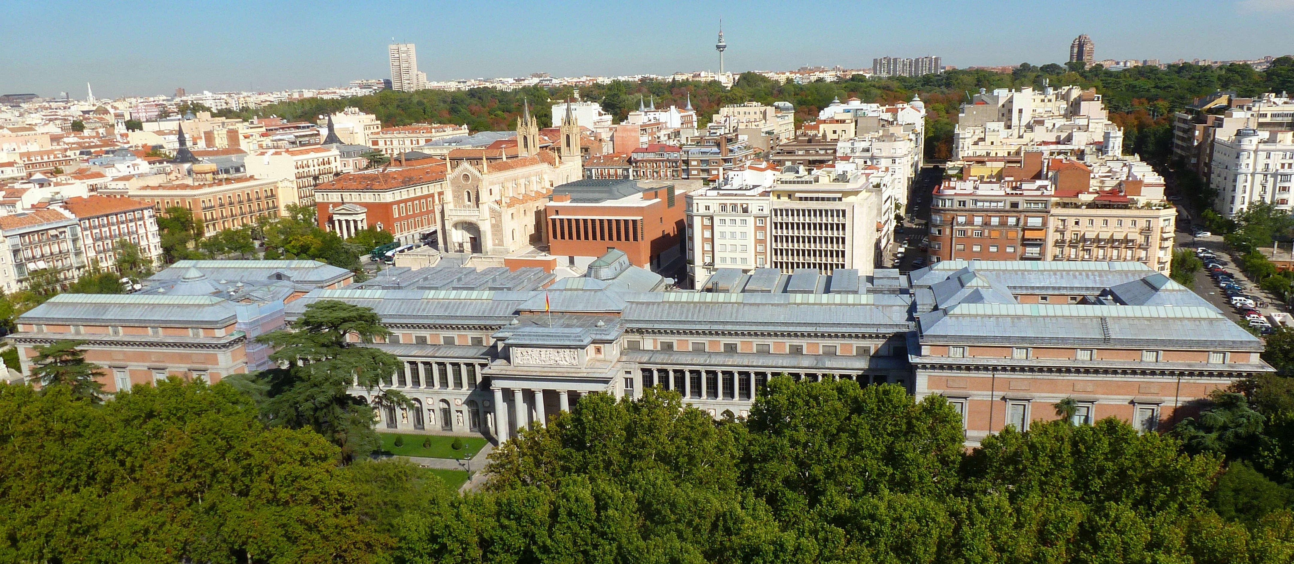 Overview of the Prado Museum.